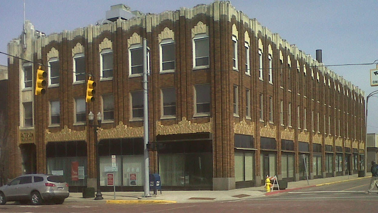 I took this picture with my own camera. I still have the picture on my disk.